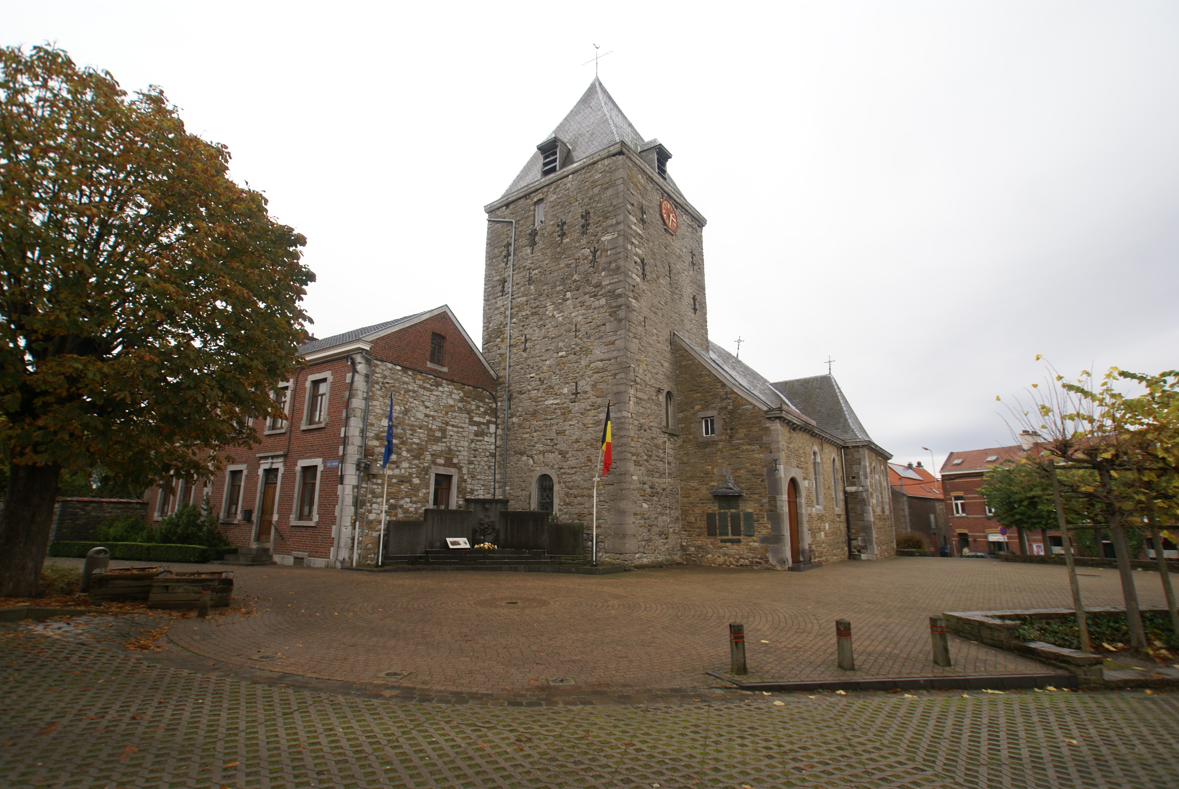 Andrimont (United Kingdom): Sainte Laurence's Church